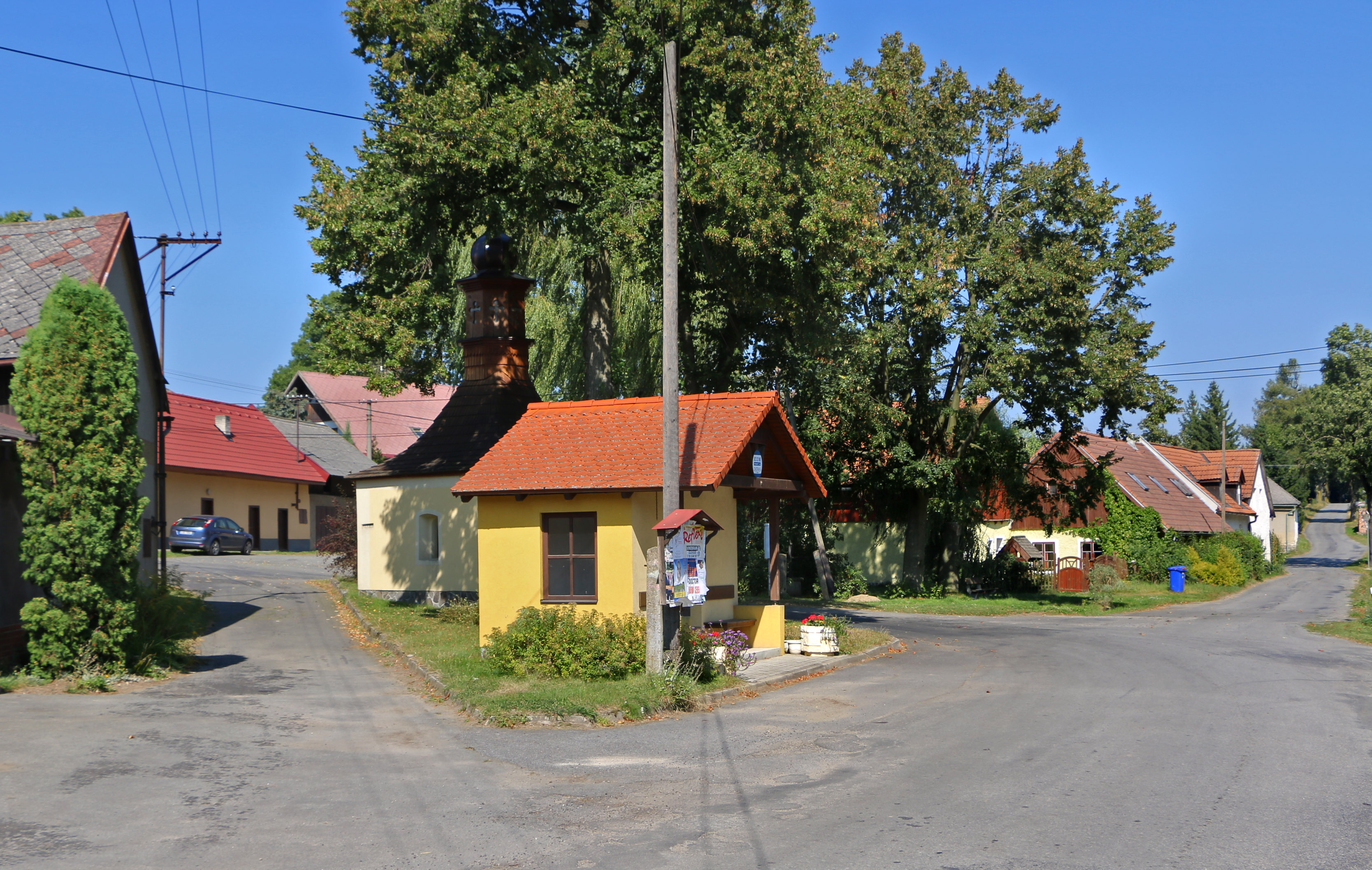 Common in Černov, Czech Republic.